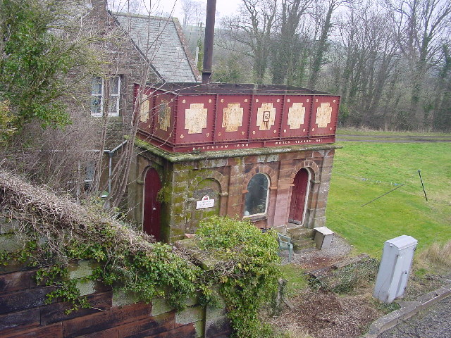 Water Tank, Curthwaite Station. A listed building.